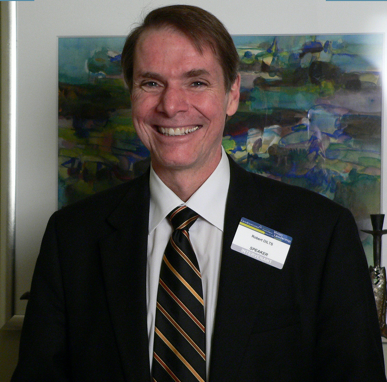 Robert Dilts (born 1955) has been a developer, author, trainer and consultant in the field of Neuro-linguistic programming (NLP) since its creation in 1975 by John Grinder and Richard Bandler.